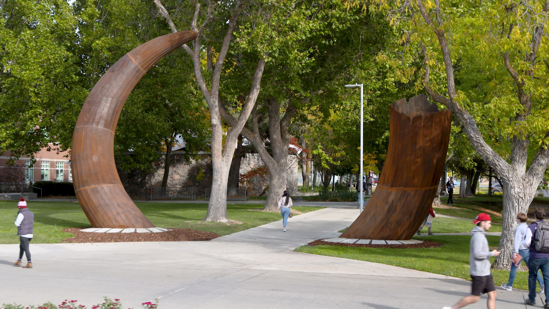 Cor-ten steel and concrete 25 x 49 x 10 feet Central Washington University, Ellensburg, WA Washington State Arts Commission